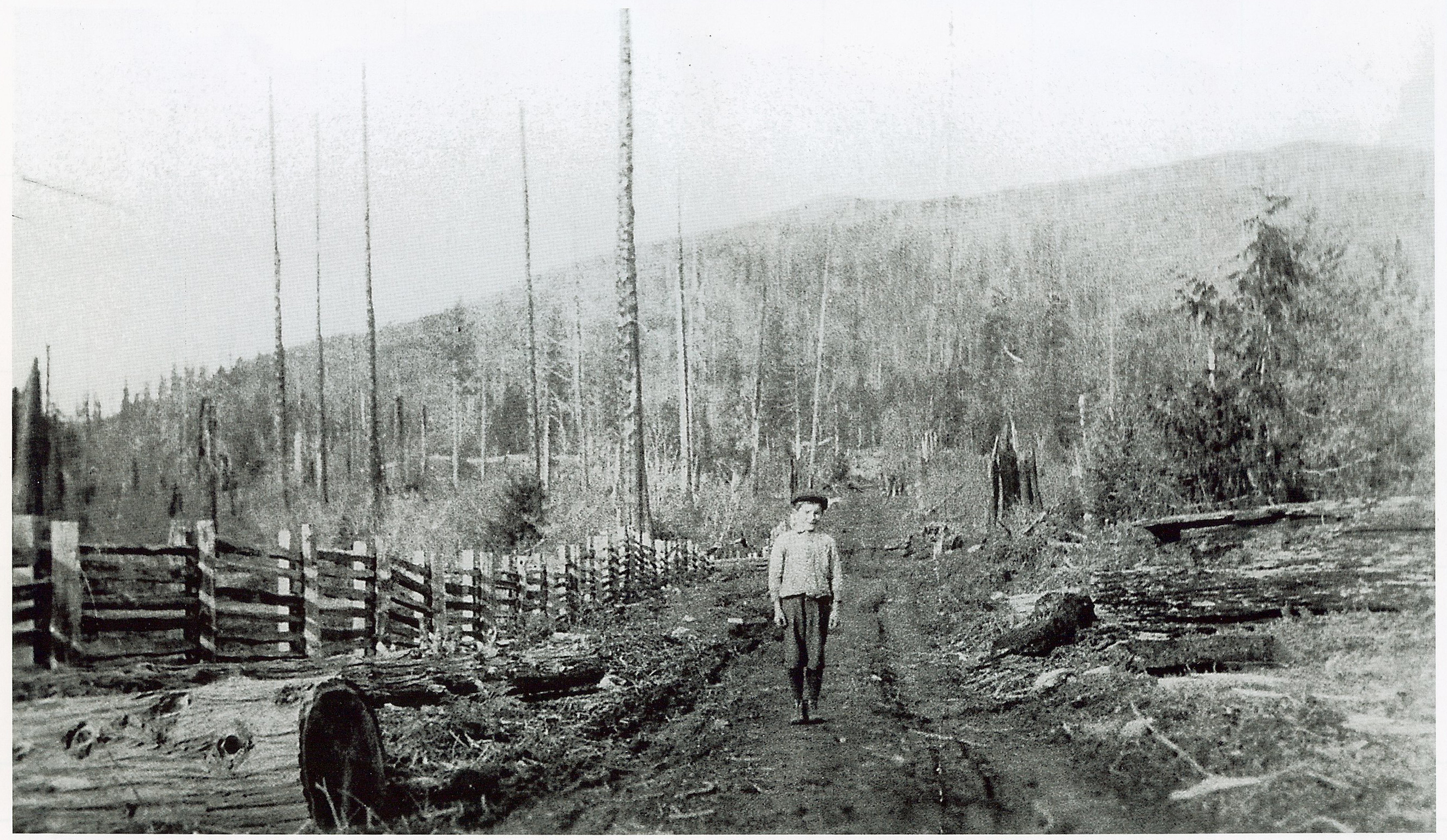 Gene_Voight_standing_on_Haley_Road_Ryder_Lake_Chilliwack. Haley Rd formerly known as No 4 Rd.